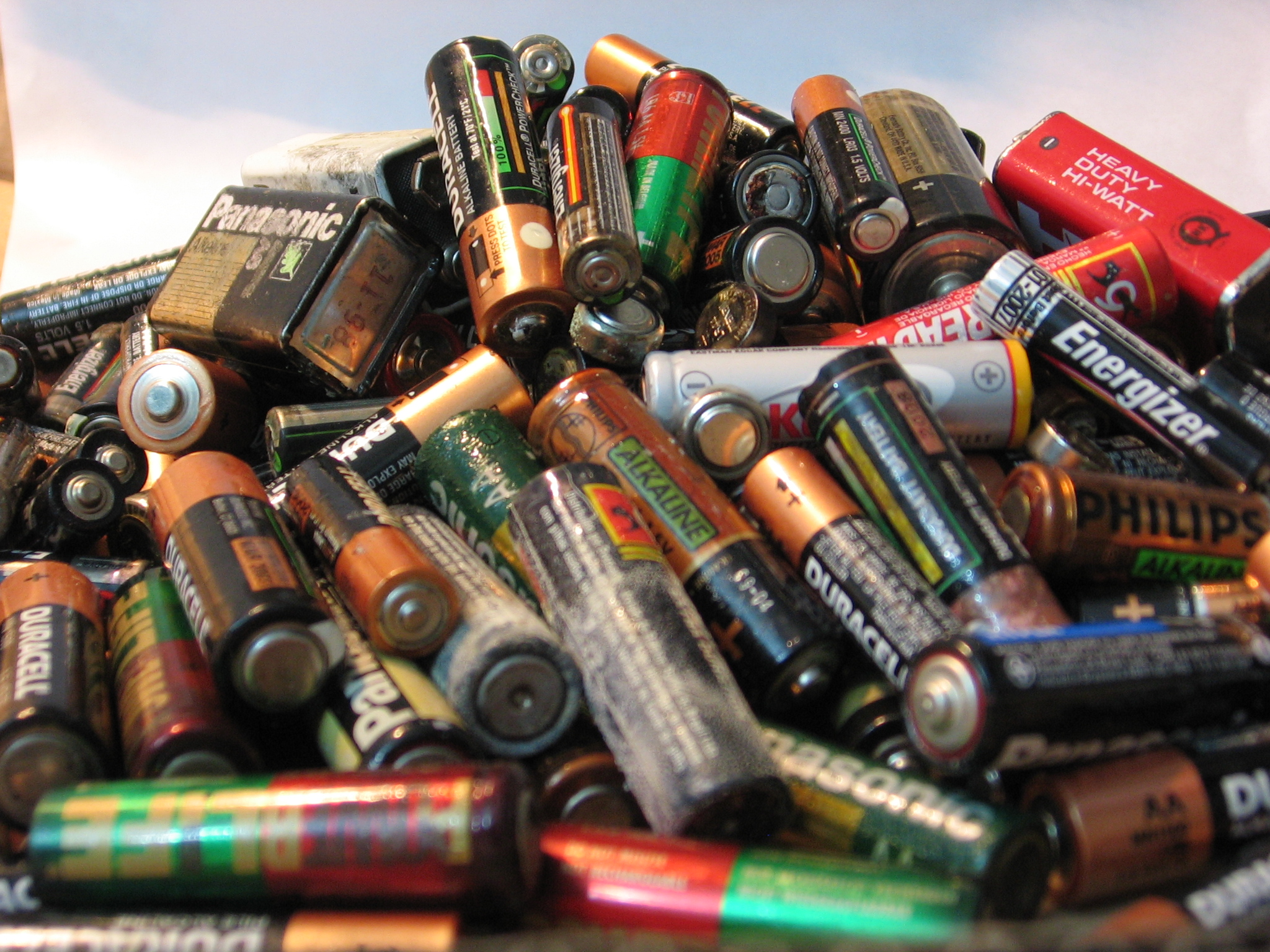 Used electric batteries